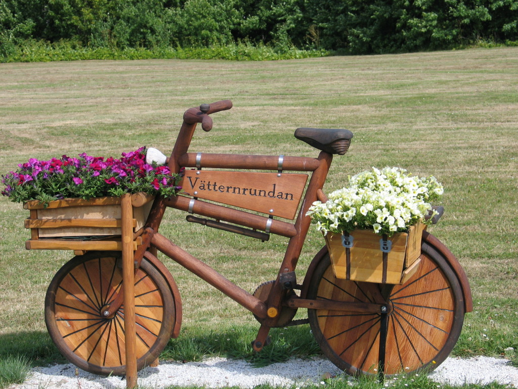 Summer's Celebration - Motala, Sweden.